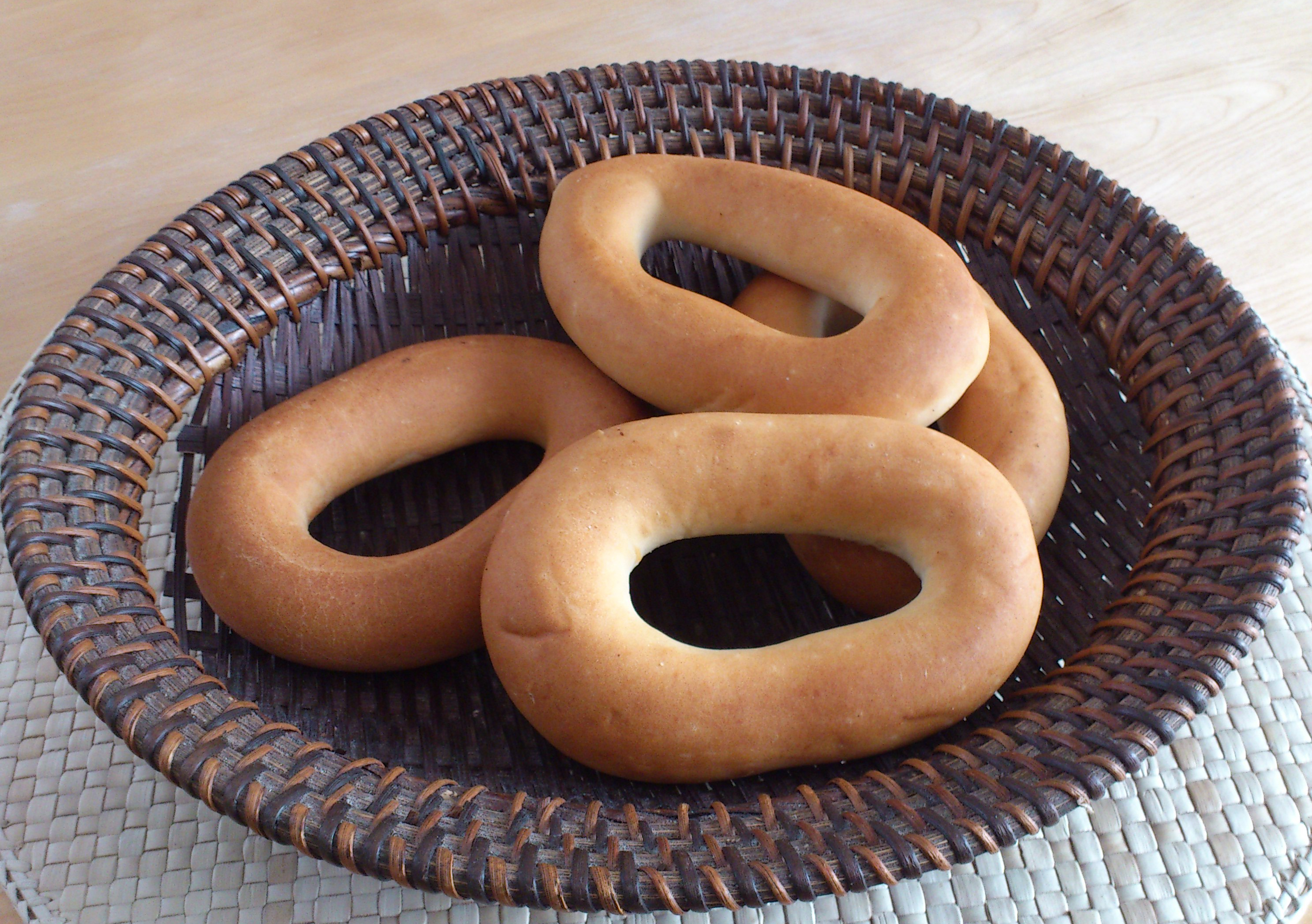 Baranki